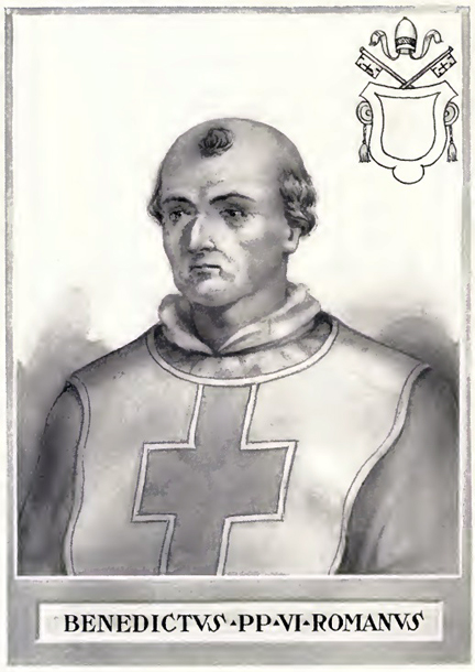 This illustration is from The Lives and Times of the Popes by Chevalier Artaud de Montor, New York: The Catholic Publication Society of America, 1911. It was originally published in 1842.